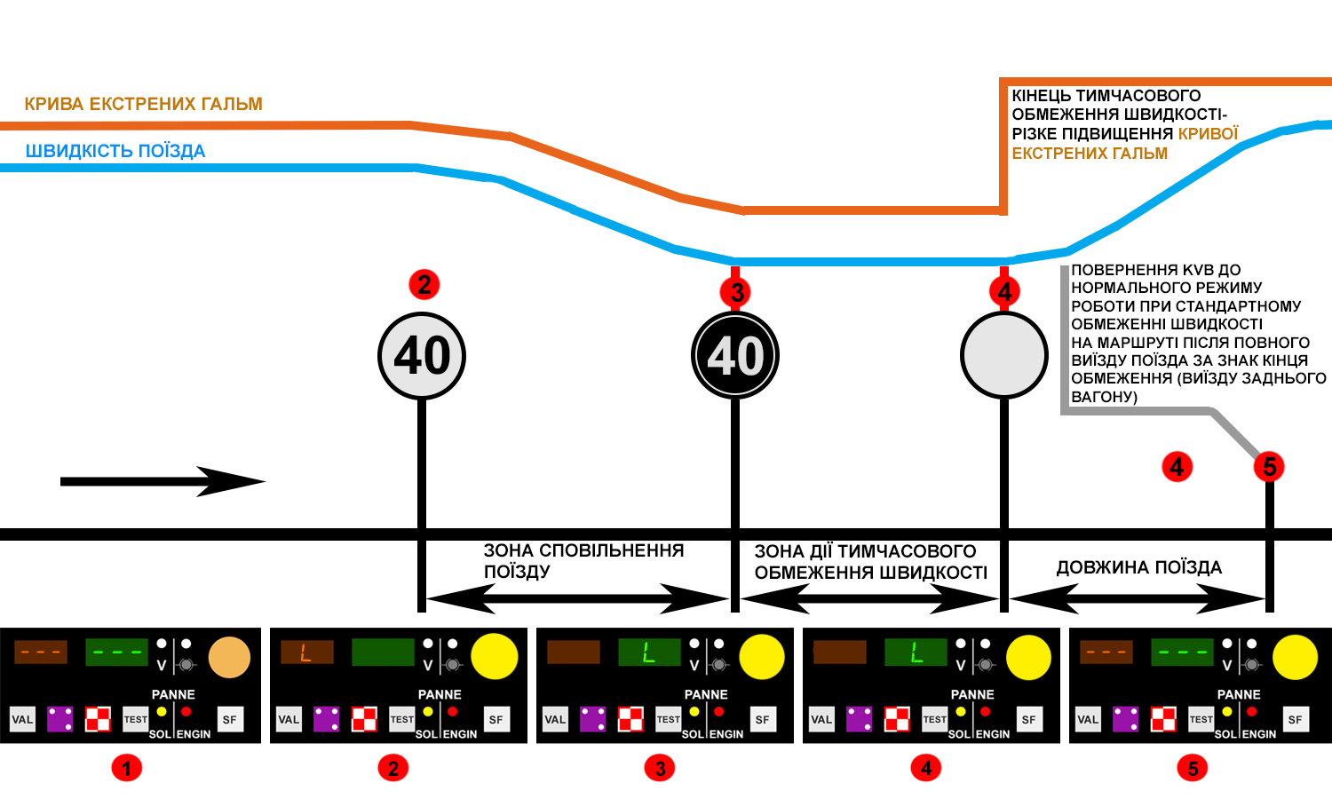 Speeding KVB TEMP